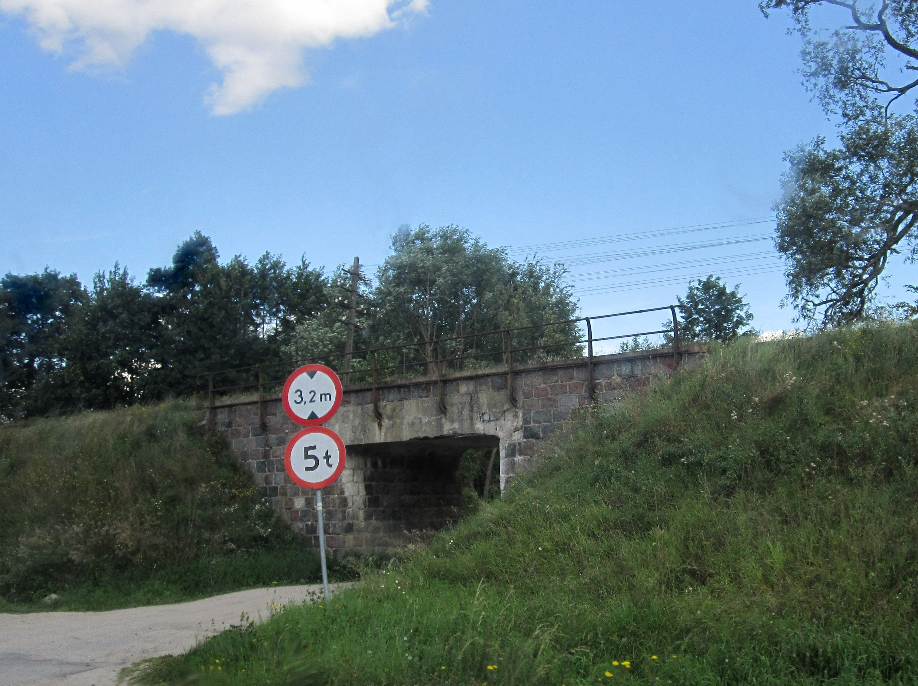 Zełwągi - railway bridge